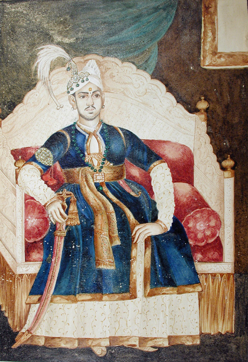 Maharaja Swathi Thirunal, The king of Travancore,Keralam